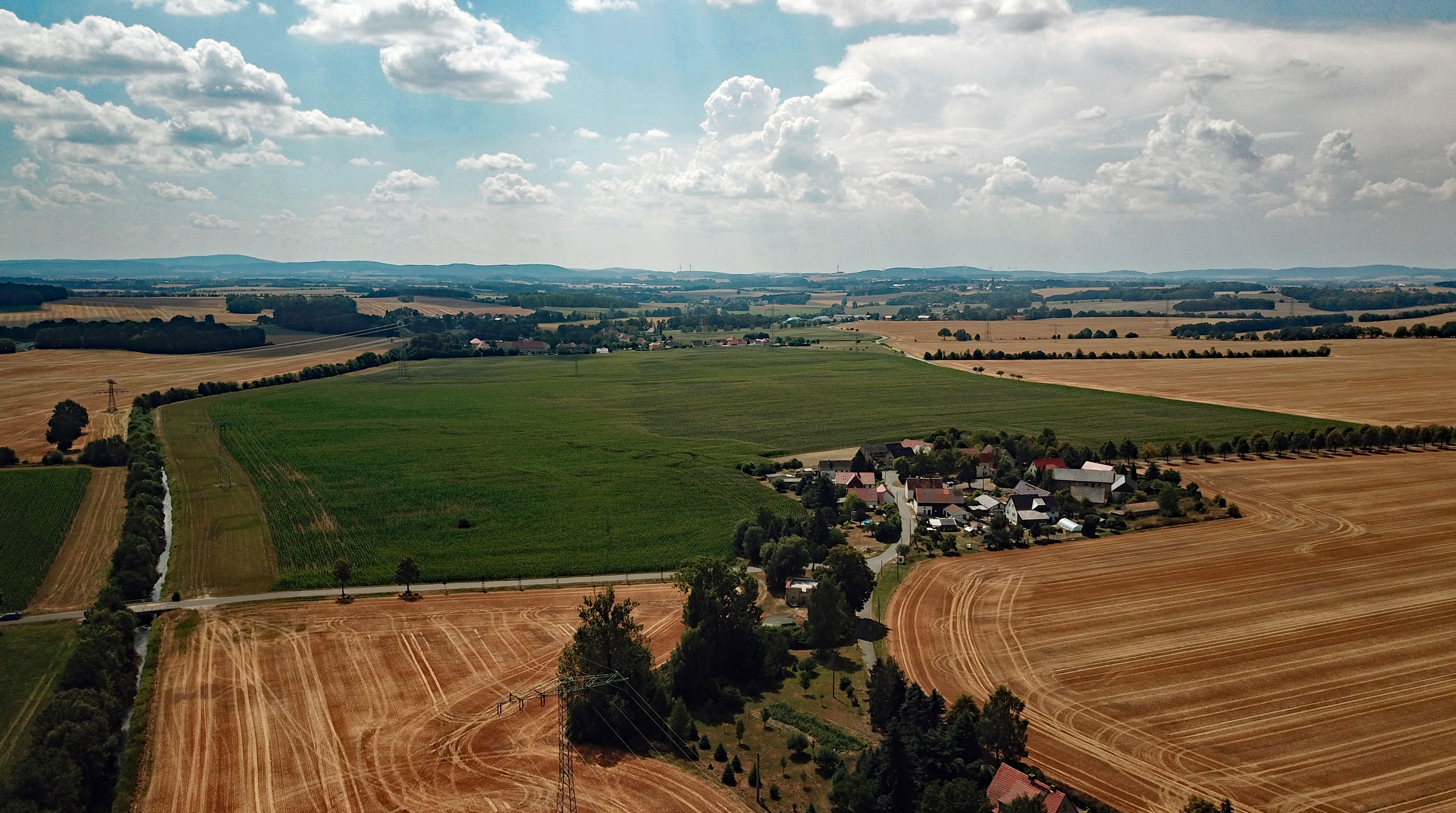 Krinitz (Neschwitz, Saxony, Germany) Hornjoserbsce: Powětrowy wobraz Króńcy